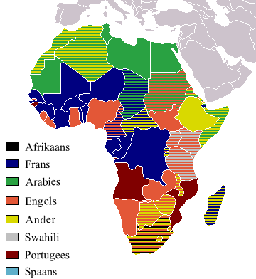 A map of the languages of Afrika